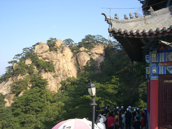 Qianshan National Park, near Anshan of Liaoning Province, northeastern China (viewing the scenery)